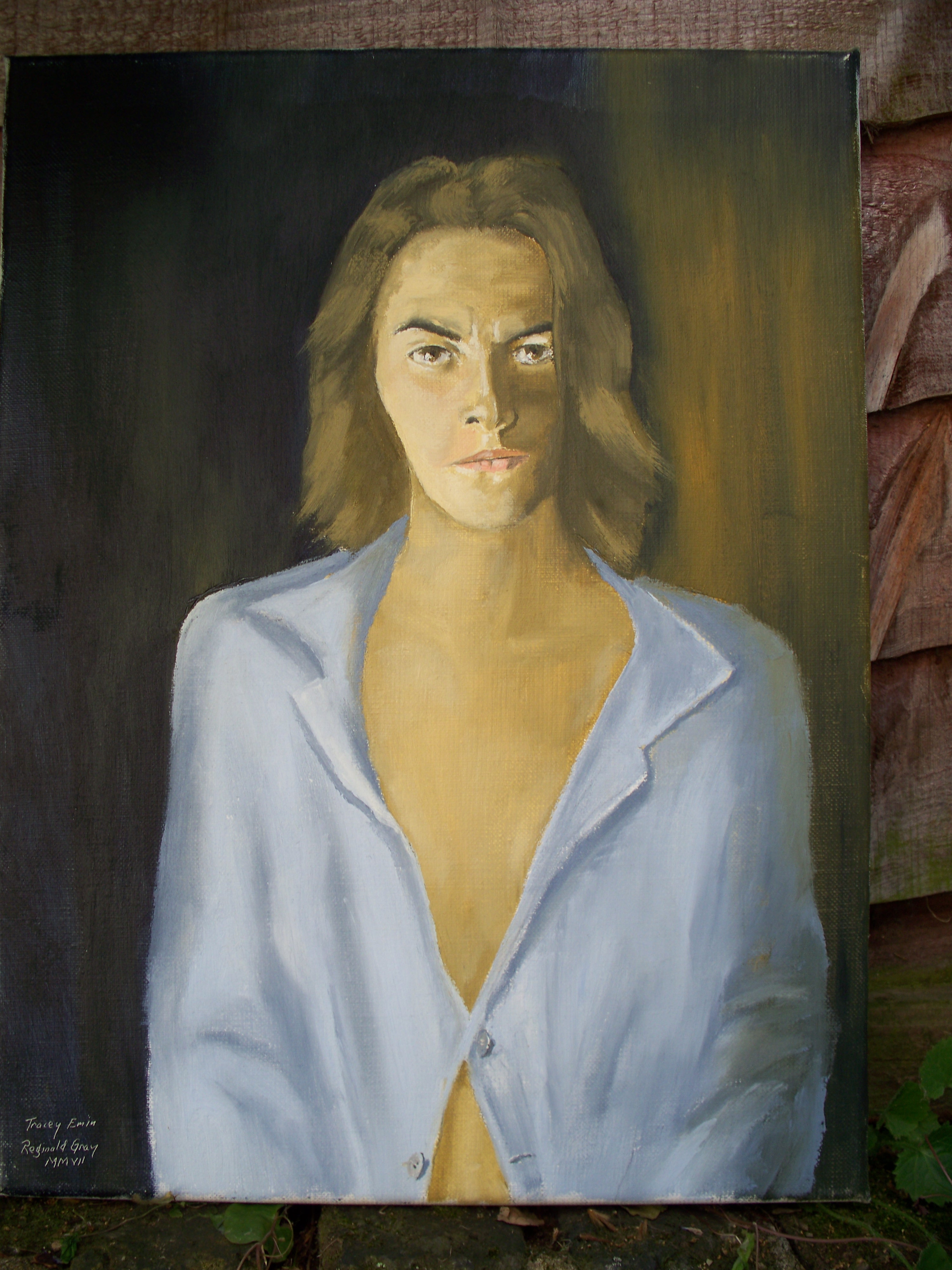 Painting on Canvas